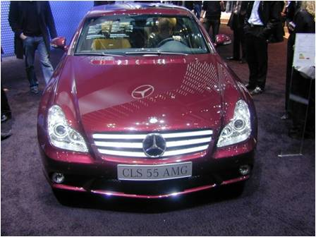 Mercedes car, varnished with an effect pigment based on an alumina substrate (Xirallix).